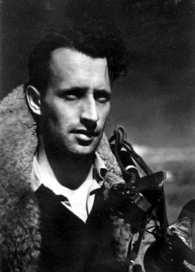 Tunisia. May 1943. Informal portrait of Squadron Leader Brian Eaton of No. 3 (Kittyhawk) Squadron RAAF before an operation at Kairouan.